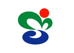 Flag of Munakata Fukuoka